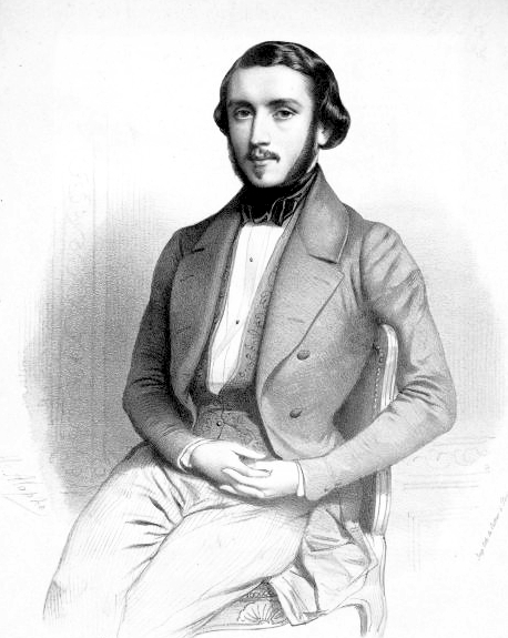 French organist and composer Louis James Alfred Lefébure-Wely (1817-1869) by Marie-Alexandre Alophe (1812-1883).